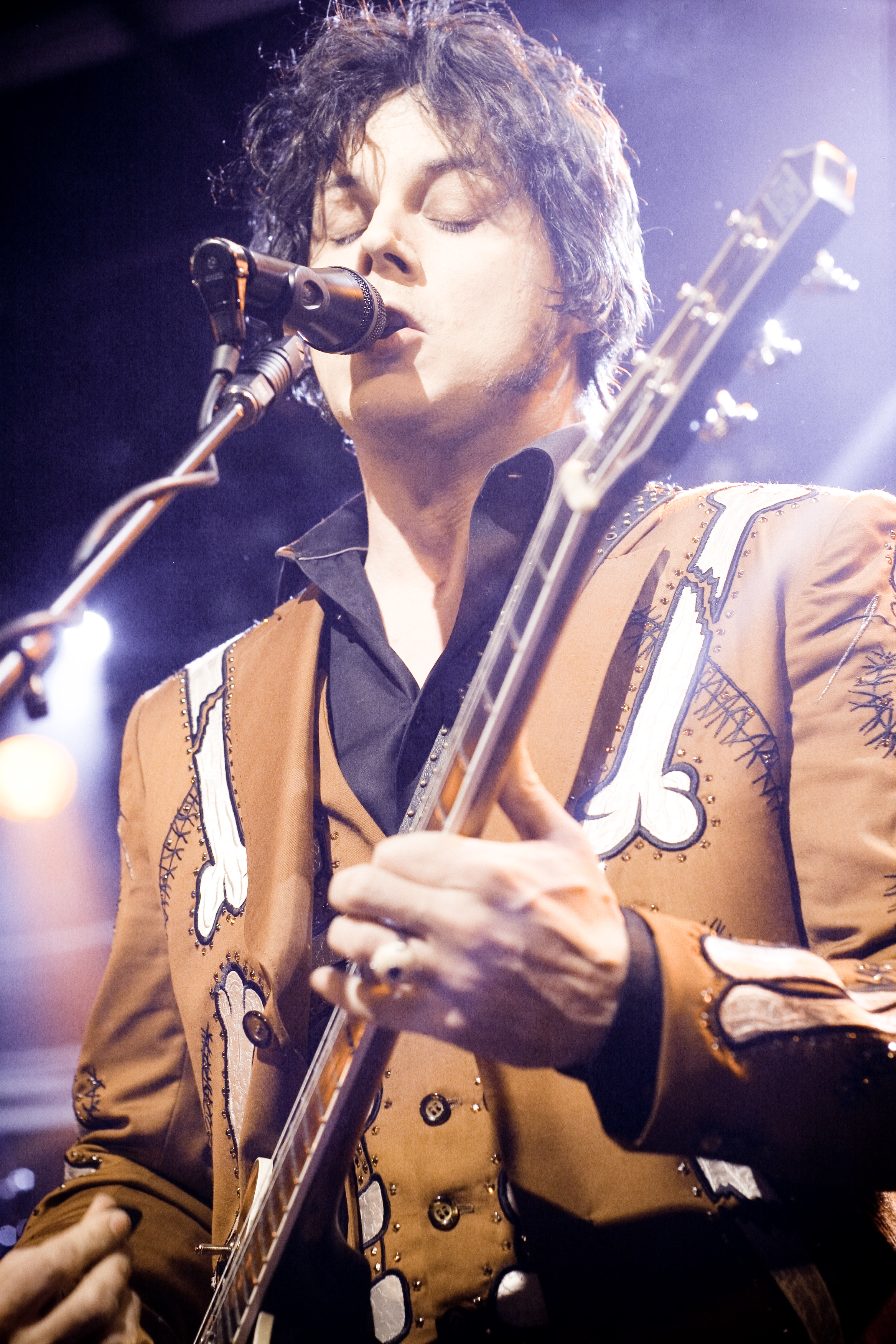 Jack White of the Raconteurs performing at the Commodore Ballroom in Vancouver B.C in April of 2008. Photo shot by Kris Krug.